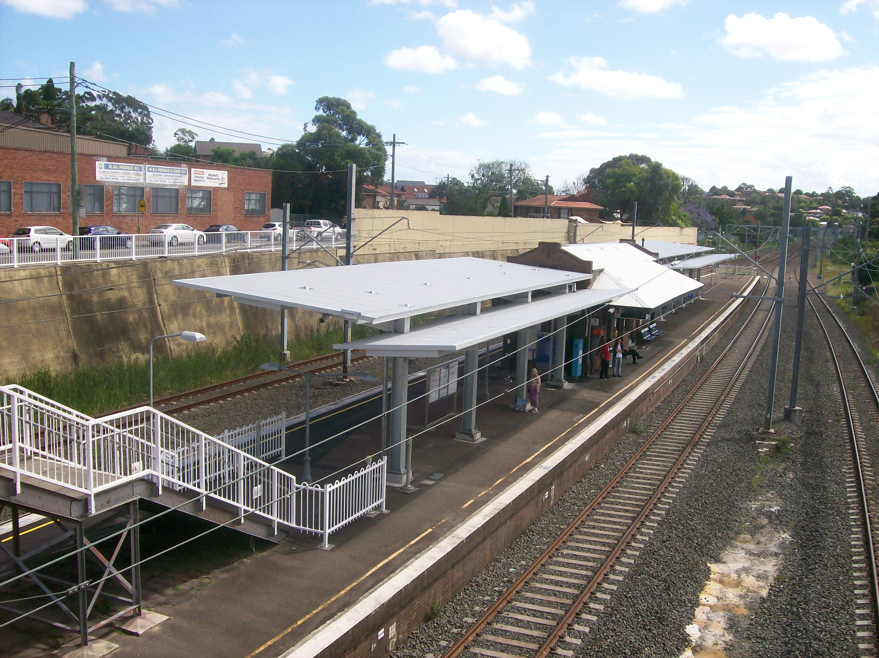 Turella railway station